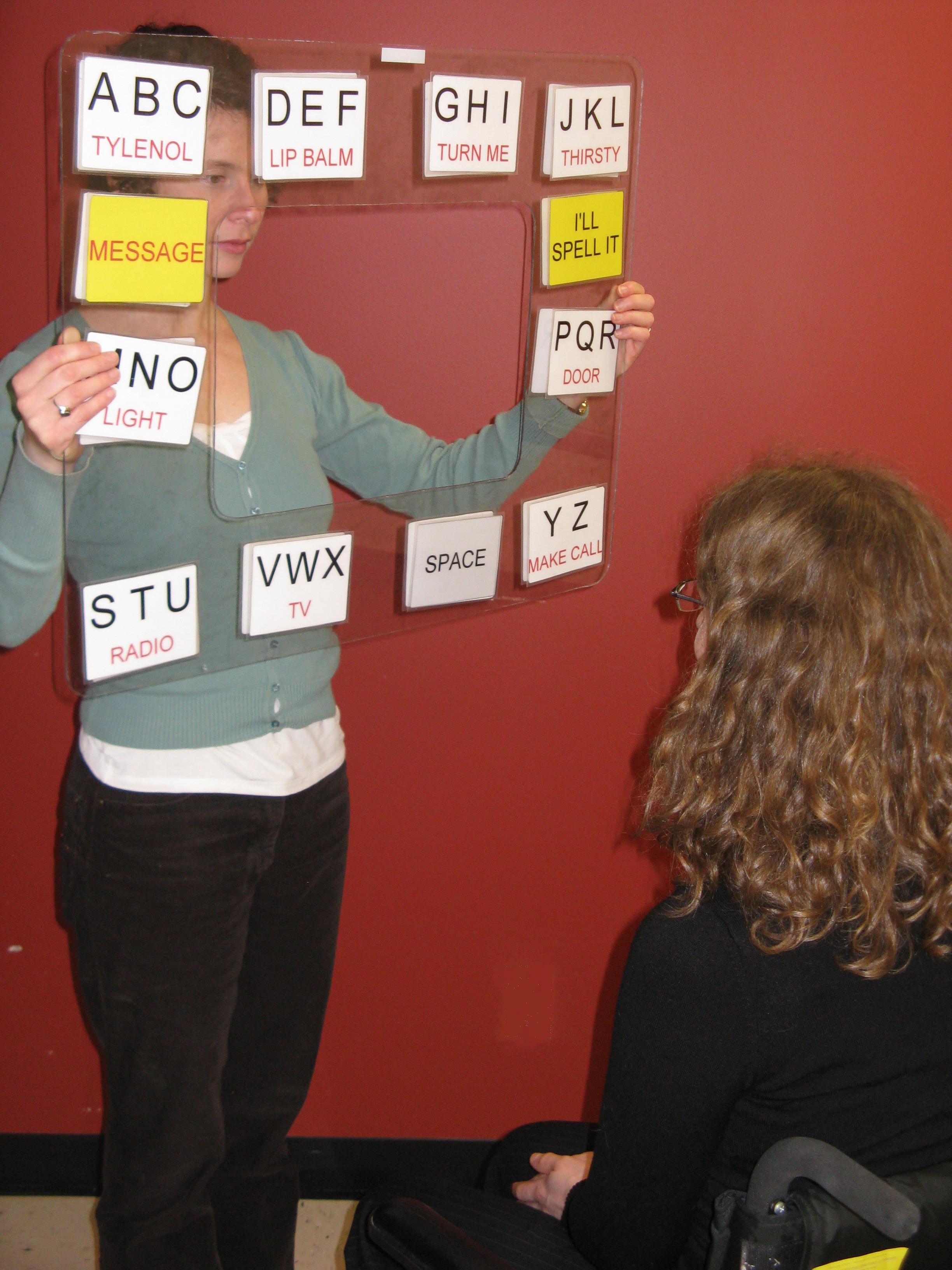 two people using an eyegaze communication board